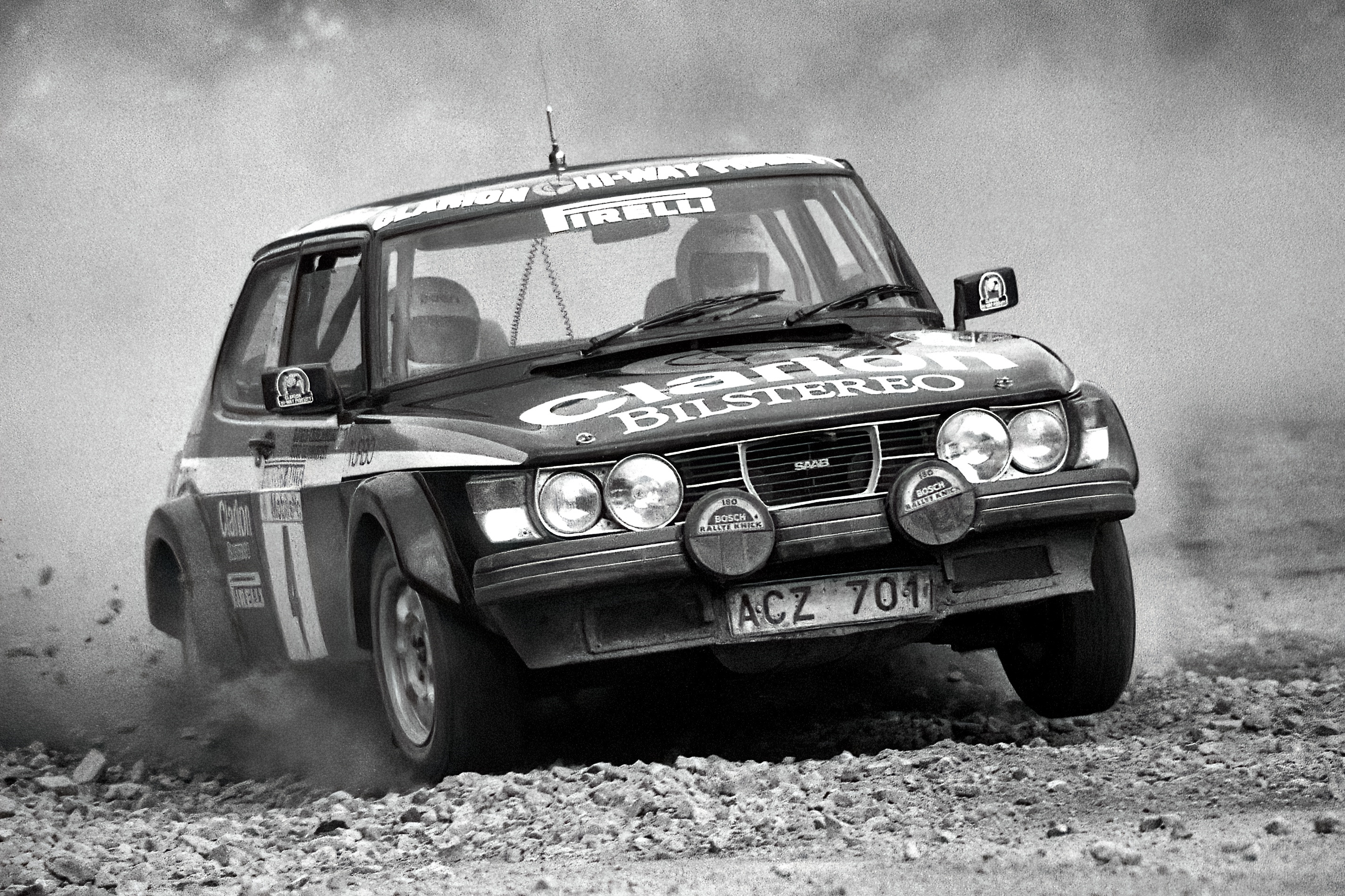 Stig Blomqvist and Björn Cederberg with their Saab 99 Turbo pictured during the 1980 Hunsrück-Rallye in Germany.